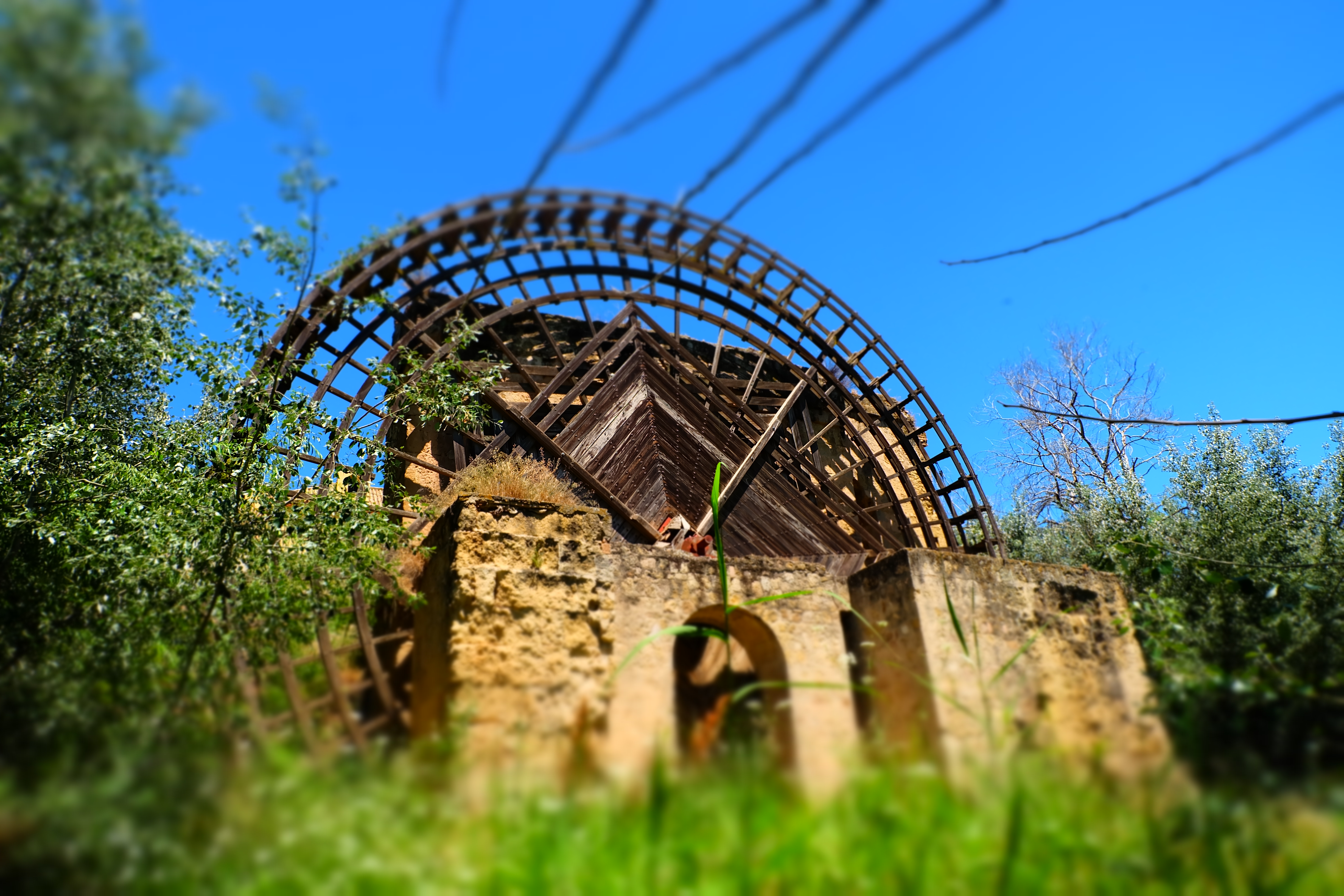 This water mill was built under Abd al-Rahman II in Cordoba